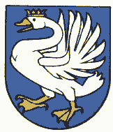 coat of arms city of Schwanden (Switzerland)